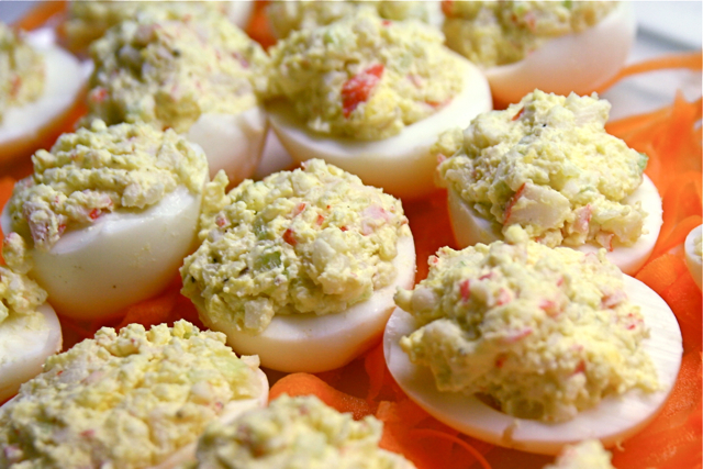 Caroline made these tasty deviled eggs with crab in a bed of shaved carrots.